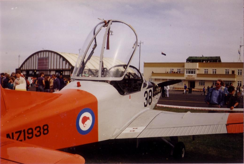 Pacific Aerospace CT/4B Airtrainer NZ1938 of the RNZAF photographed at Whenuapai in the late 1980s.